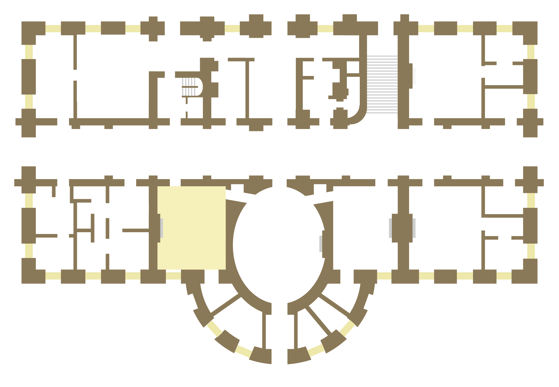 White House Ground Floor showing location of the Map Room.